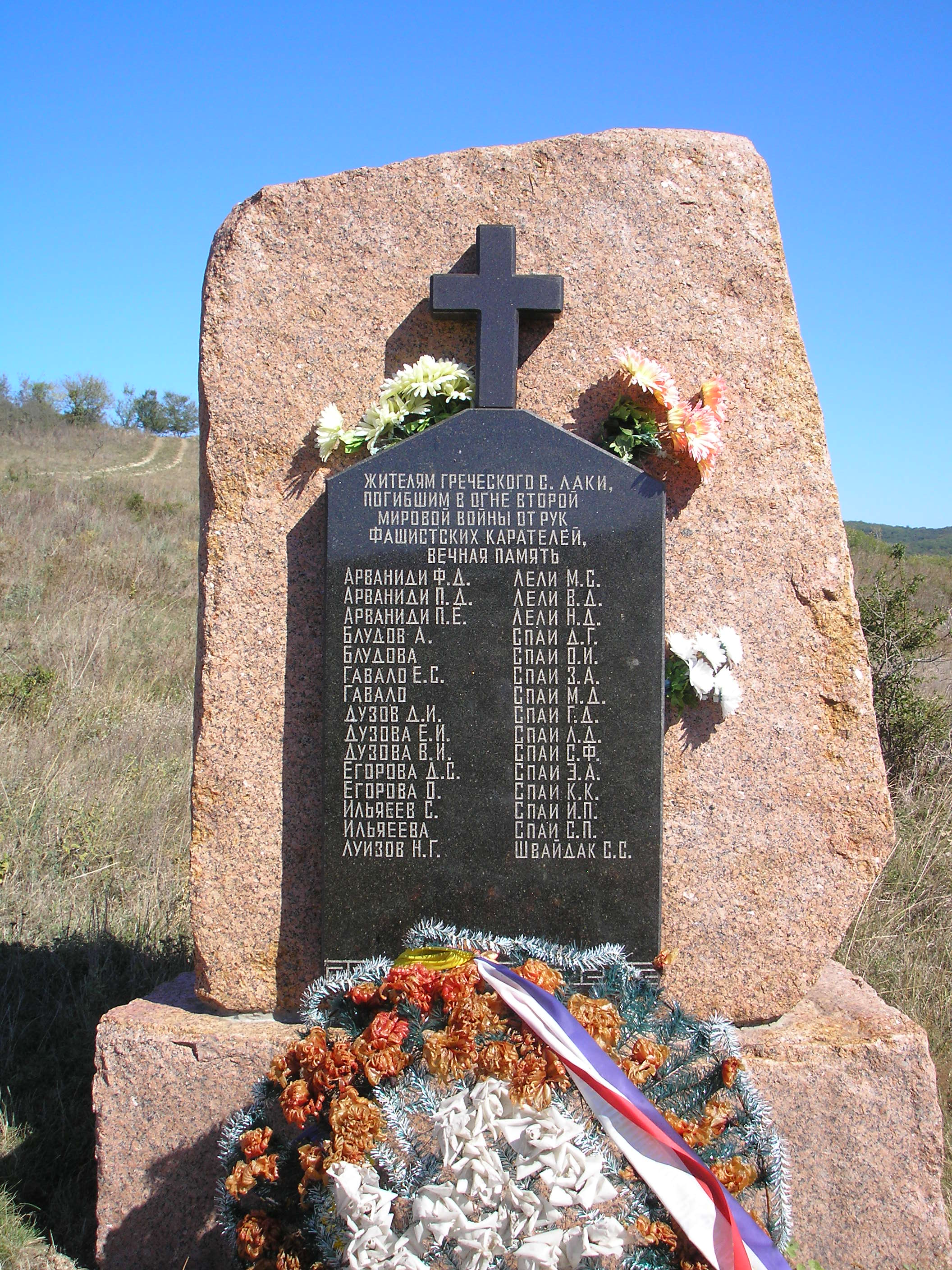 Former village Laki (Goryanka), Bakhchisaray Raion, the Crimea.